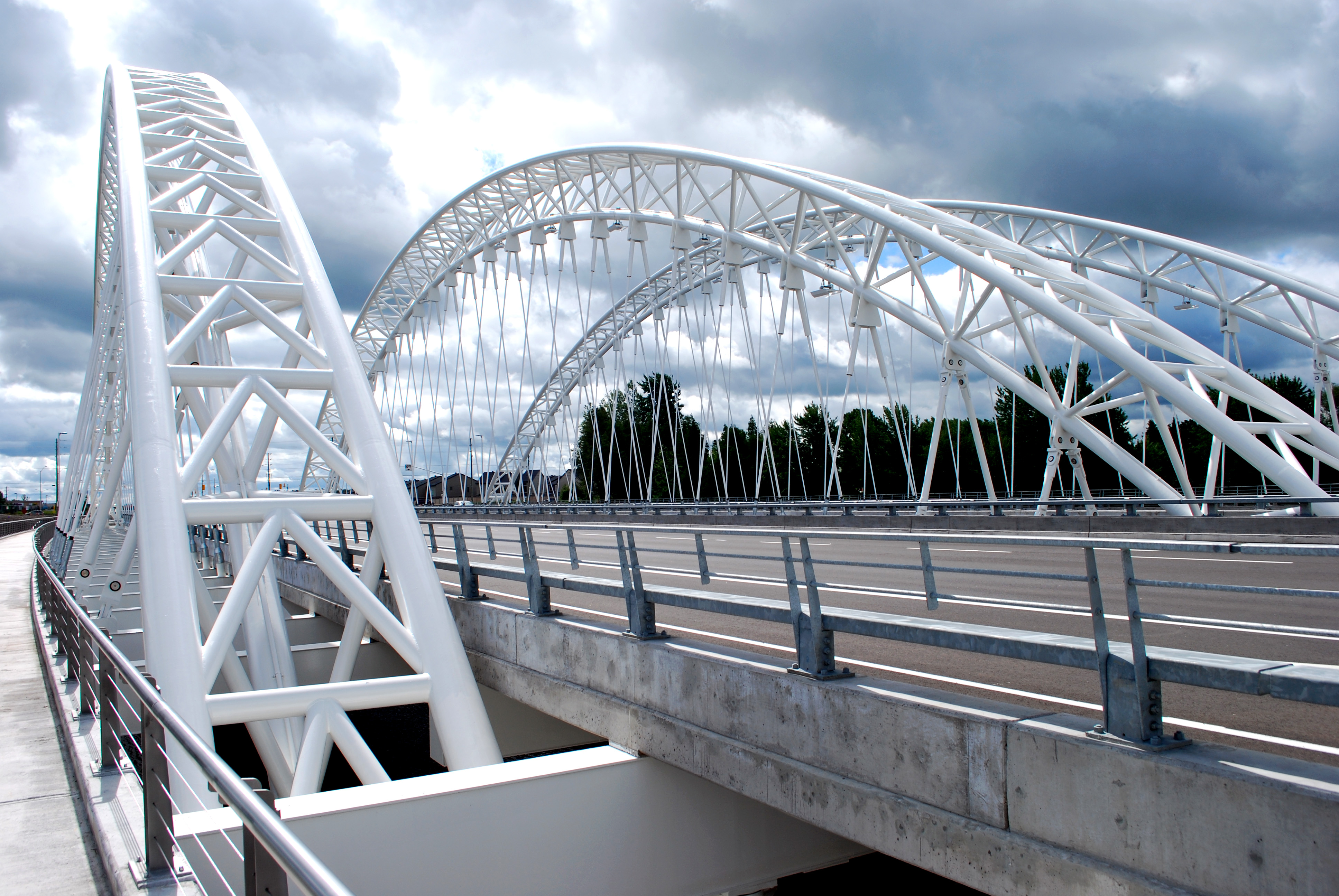 Photo of the Strandherd-Armstrong Bridge in Ottawa, ON